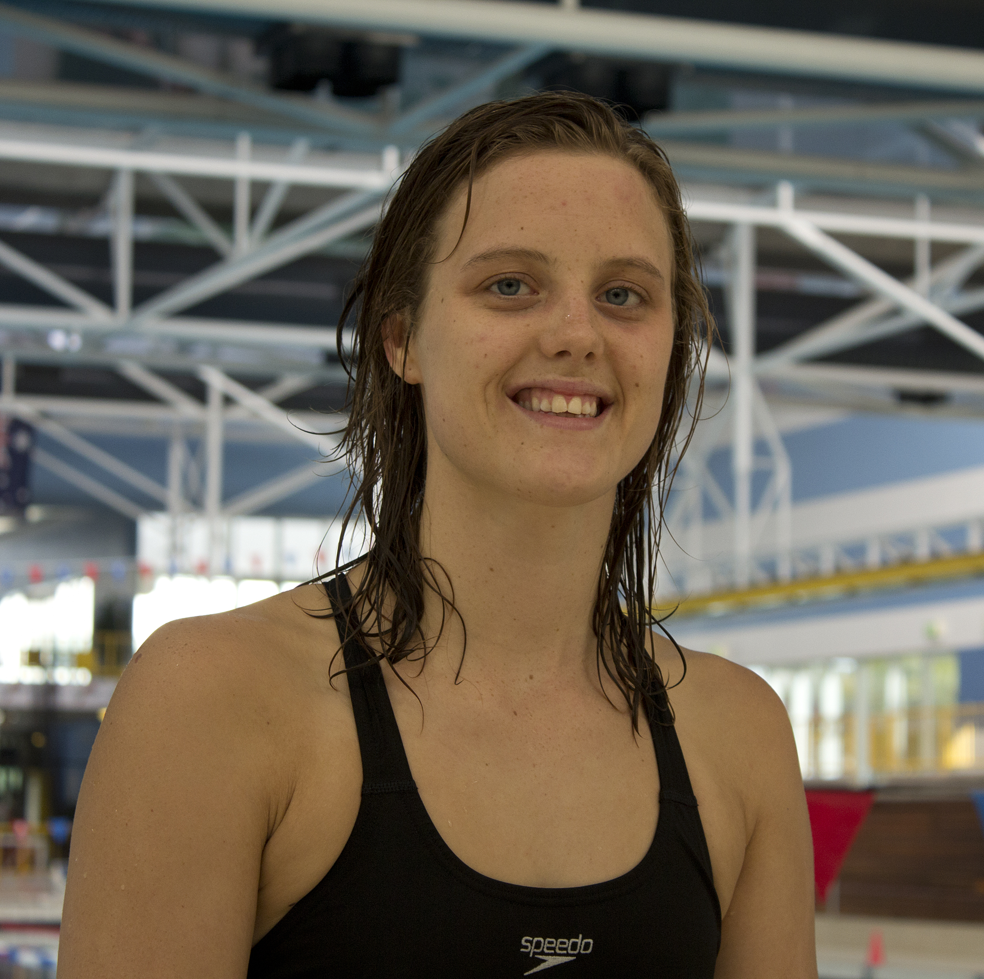 Ellie Cole Australian S9 paralympic swimmer.